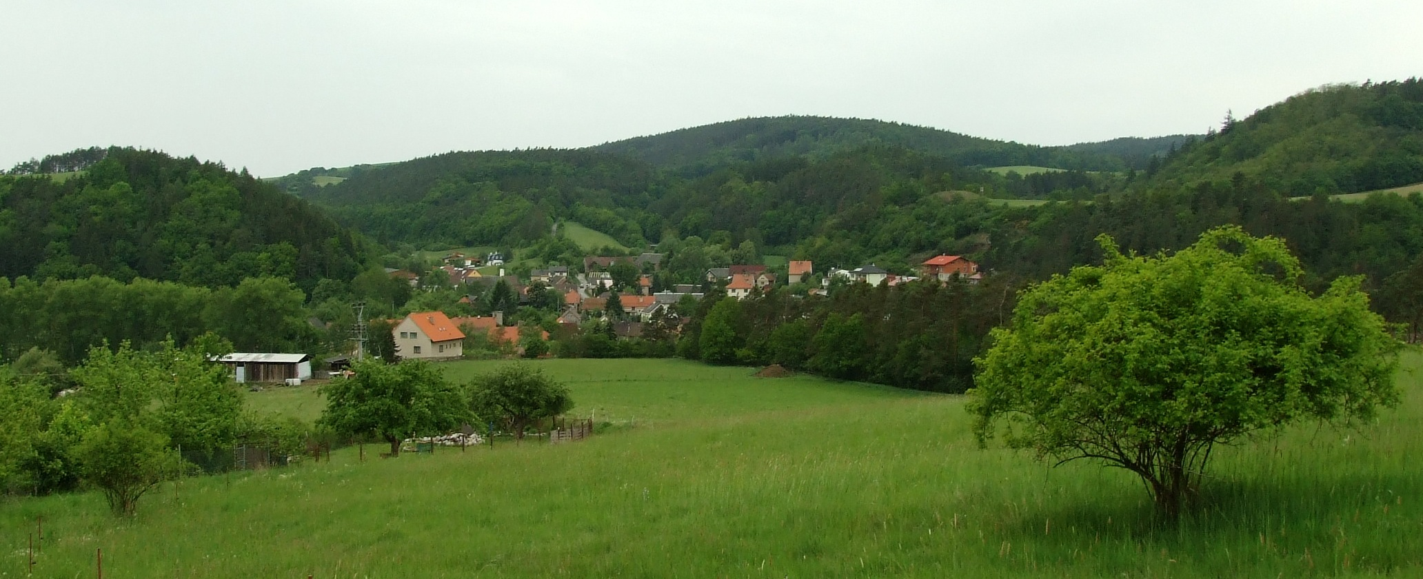 Town of Nenačovice and its surrounding nature in Central Bohemian region, CZhelp